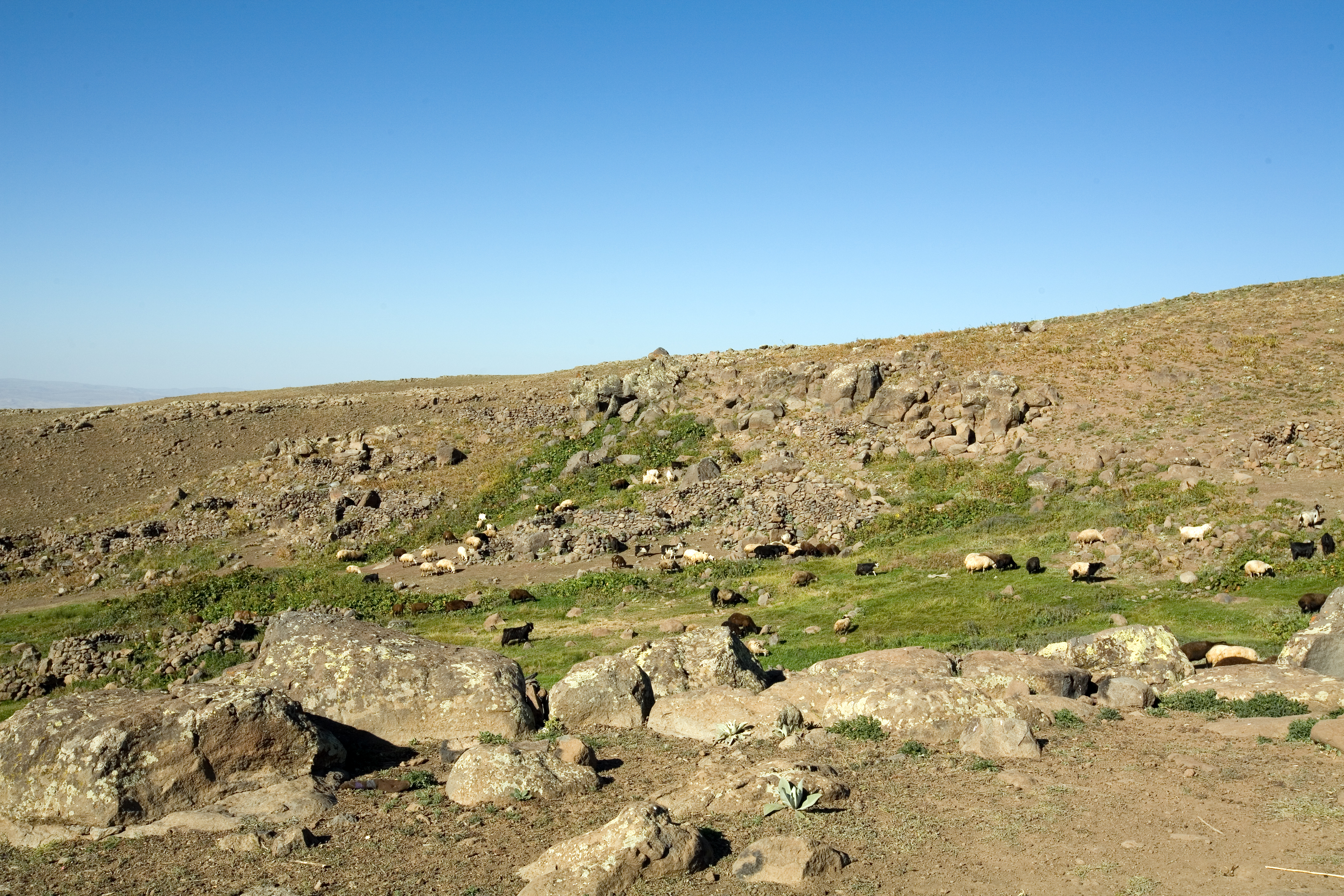 yayla (pasture in rocky terrain used in summer time)